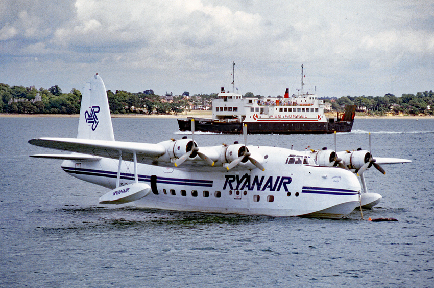 Short Sandringham G-BJHS moored off Hythe pier on Southampton Water. At this time she carried the name Spirit of Foynes. Red Funnel ferry Netley Castle passes behind. Scanned from a Kodachrome 35mm slide.